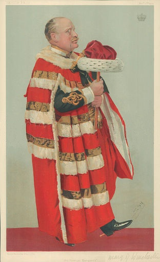 'The Premier Marquess', lithograph printed in colours from Vanity Fair magazine dated 3 November 1904: caricature of Henry Paulet, 16th Marquess of Winchester